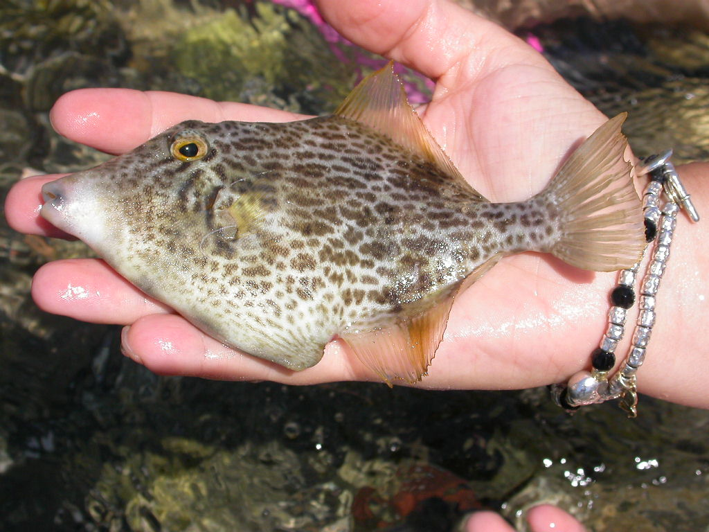 Stephanolepis diaspros collected near Bari (Apulia, southern Italy). Carefully released after photo. Photo by Francesco Trimigliozzi.